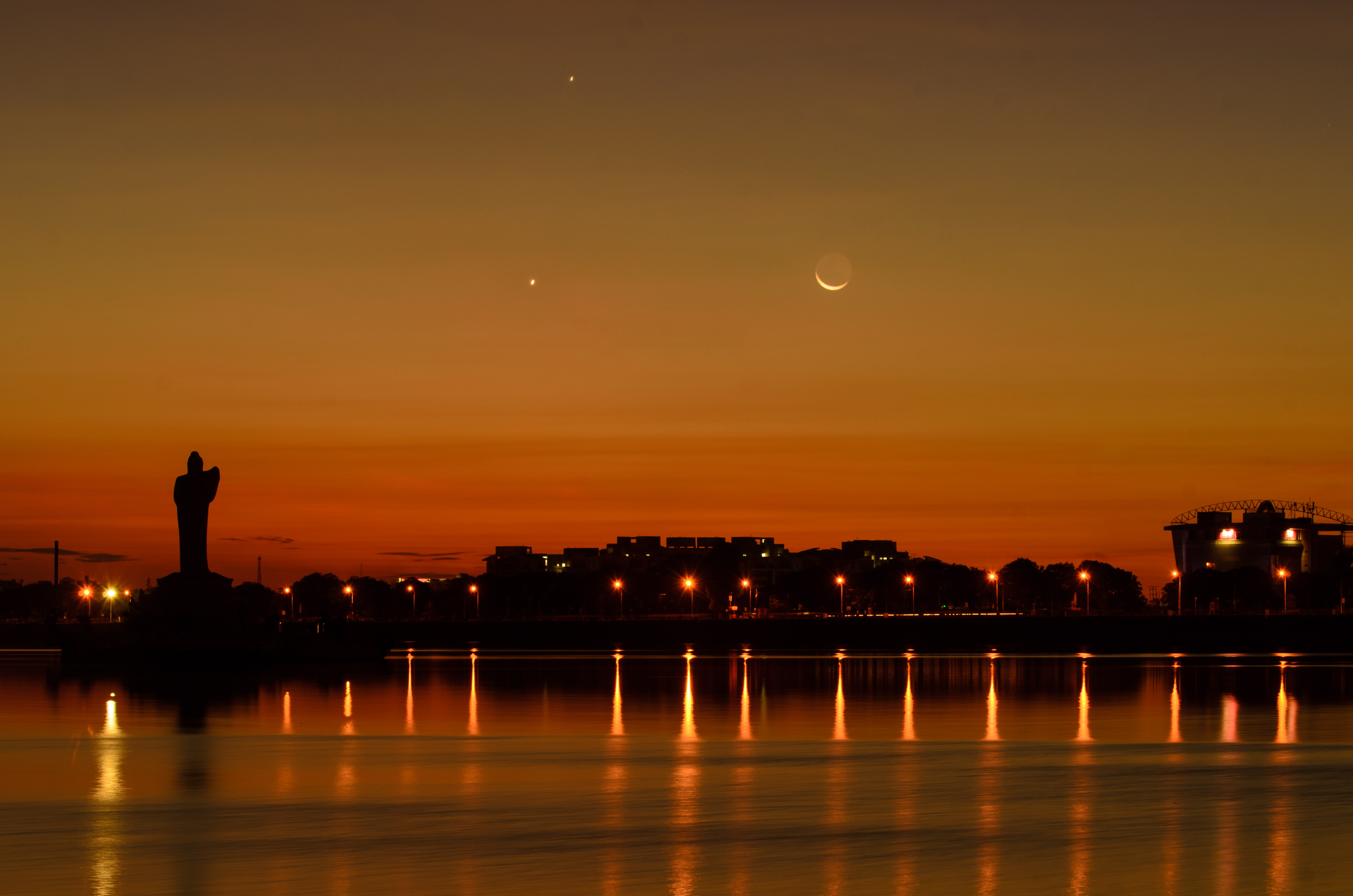 Rare view of Jupiter, Venus and Moon triangle formation at Hussain sagar early morning